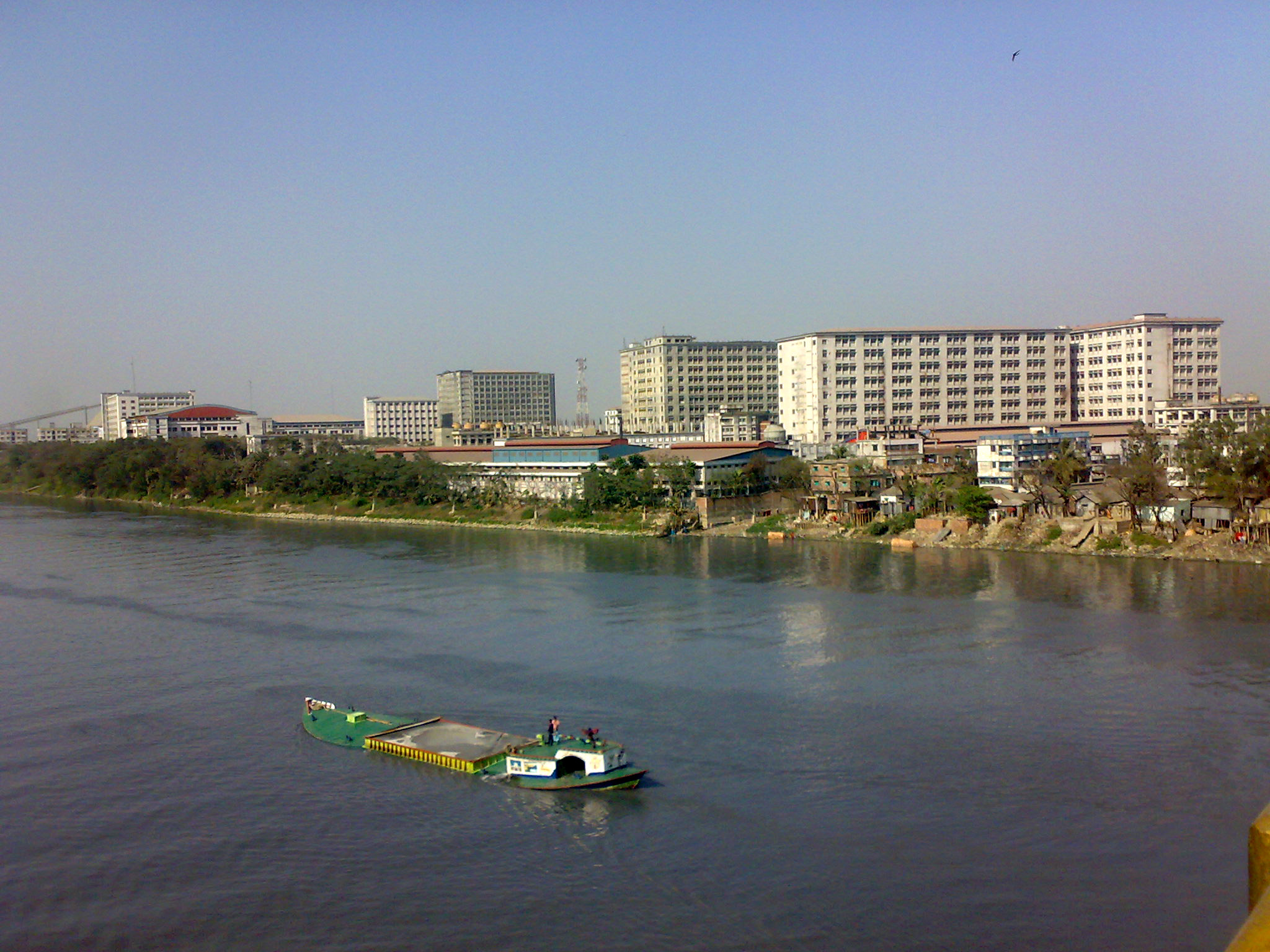 Kanchpur Industrial Area from Shitalaksha river view, Kanchpur, Pupgonj, Narayangonj.